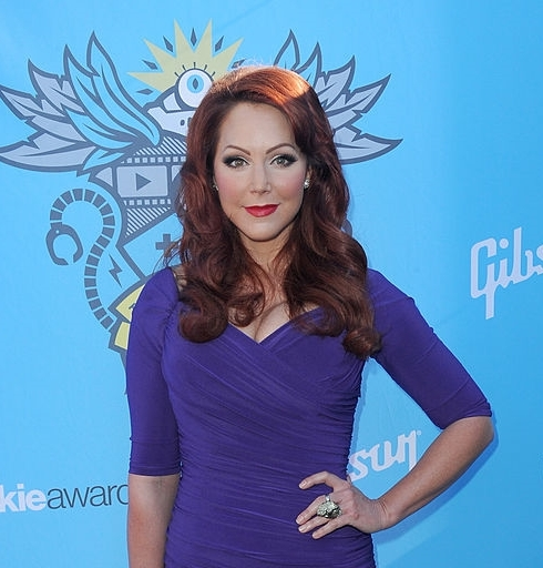 Michelle Specht at the 2014 Geeky Awards